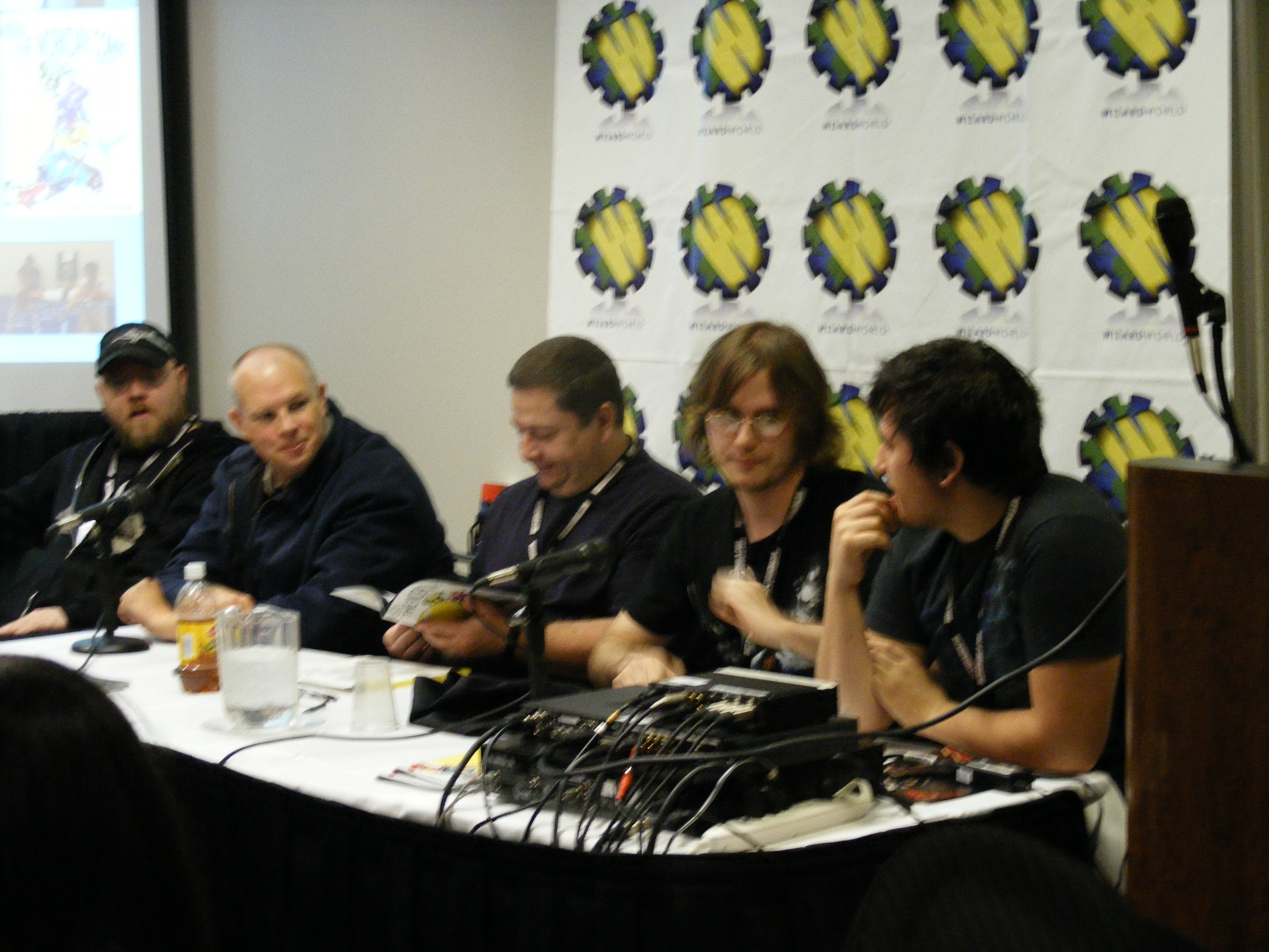 Left to right: Jacen Burrows, Jason Henderson, and Phil Hester examine The Workday Comic featuring Rocket Llama's debut while Rocket Llama artist Nick Langley discusses the comic's creation with Marko Head.